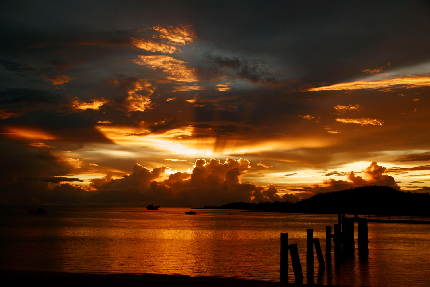 Photo taken at Sesia Cape York Queensland Australia